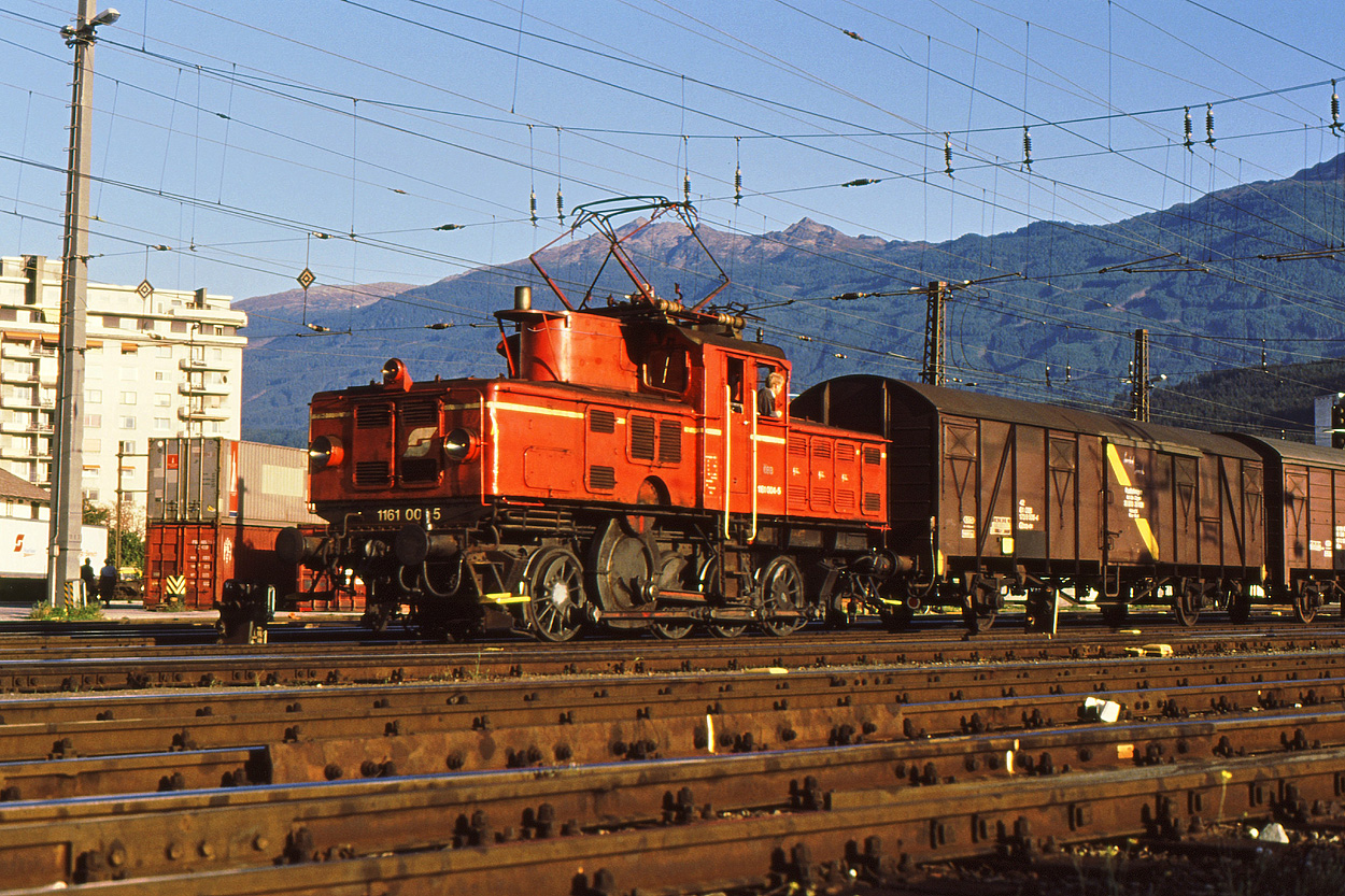 ÖBB electric shunter 1161 006-5 at Innsbruck Hauptbahnhof